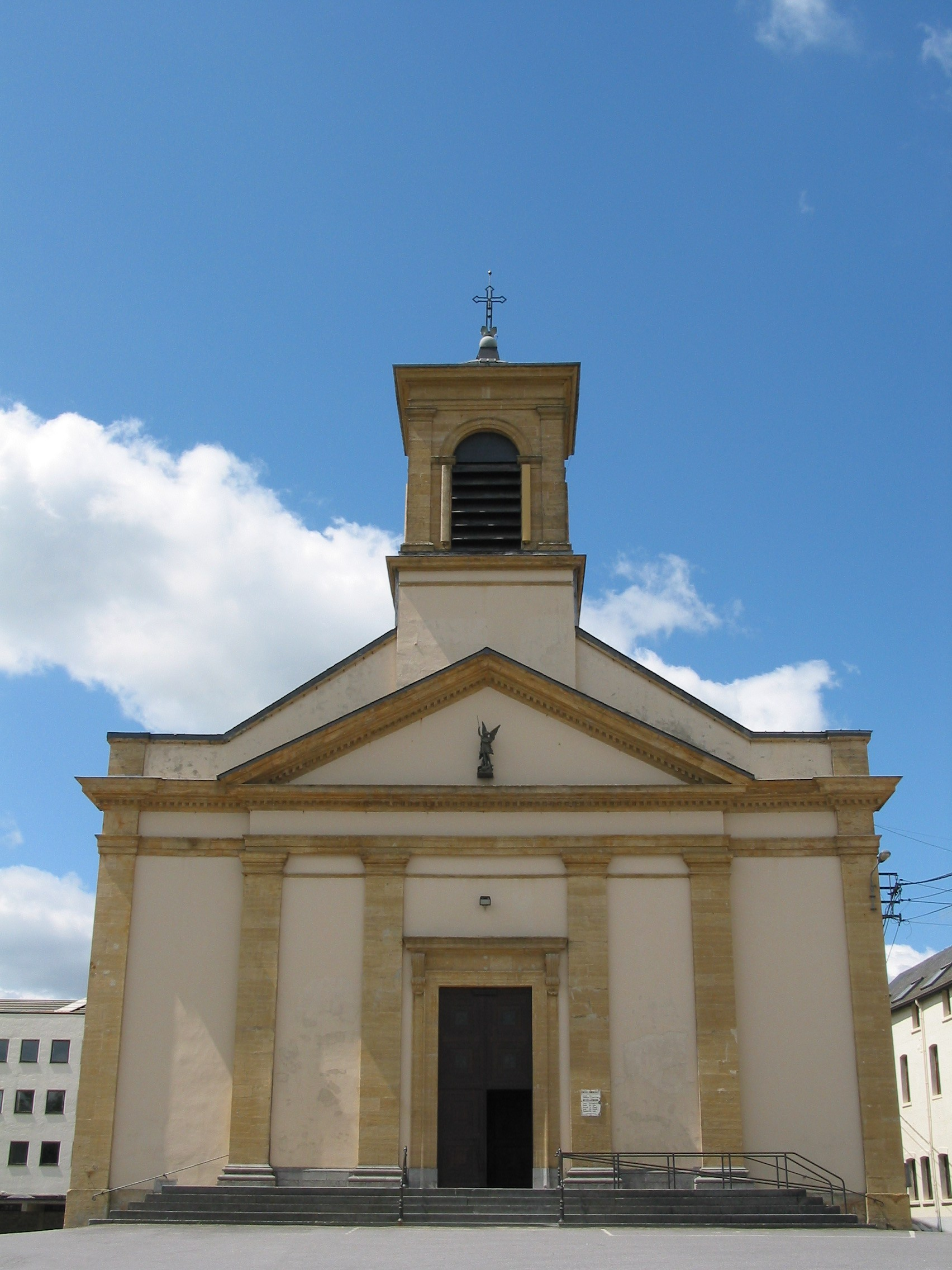 Neufchâteau (Belgium), St. Michael's church.